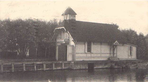 St Joseph has a Coast Guard station built on the site of this Lifesaving Service station from 1874. Original caption: “The original Life-Saving station built in 1874. The site still serves as the current location for Coast Guard Station St. Joseph. Photo courtesy of the Michigan Lighthouse Conservancy.”